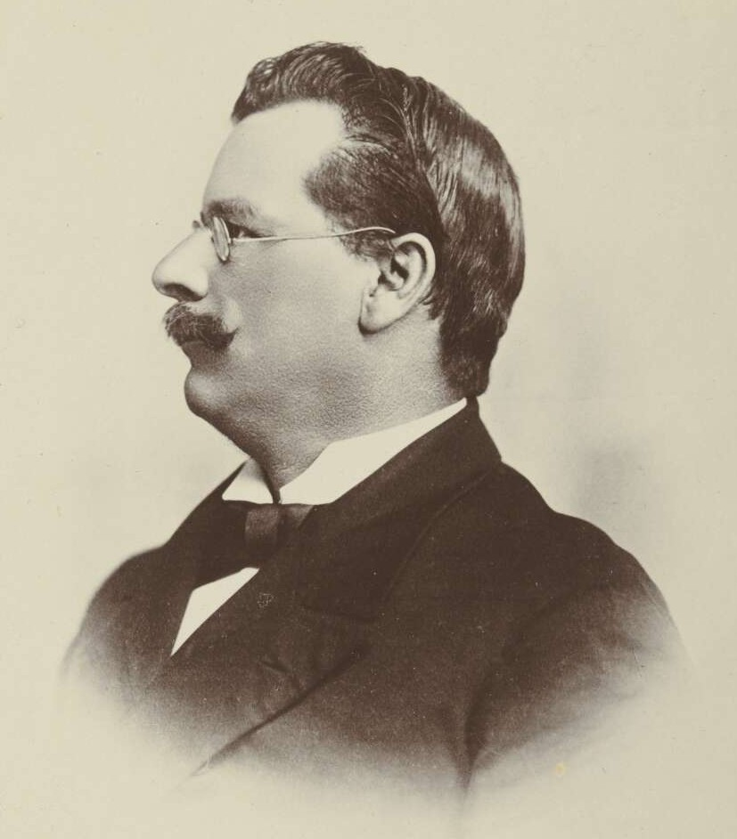 William Trenwith From the 1898 Australasian Federal Convention Album.